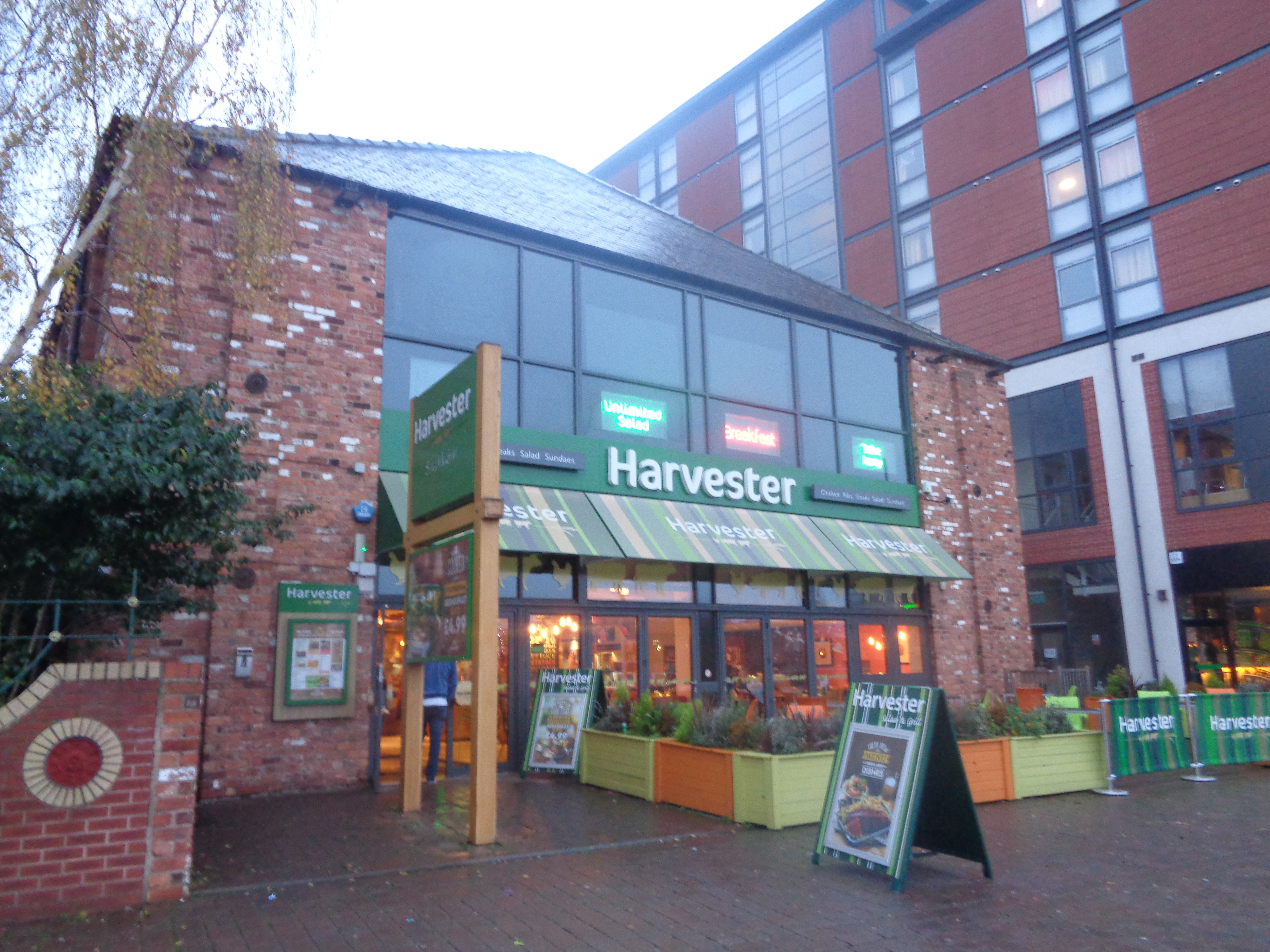 The Harvester, Brayford Wharf North, Lincoln, Lincolnshire, England. Taken on the afternoon of Sunday the 13th of December 2015.